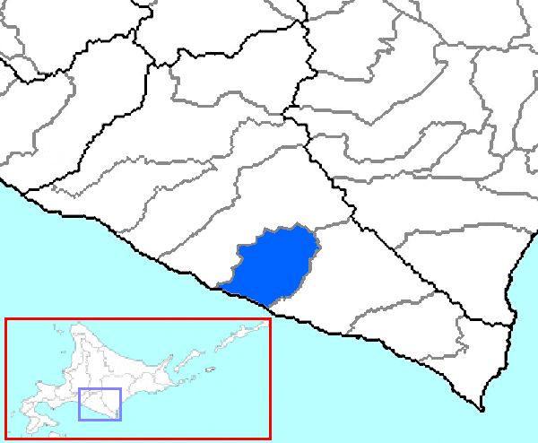 from 'Erimo_in_Hidaka_Subprefecture.gif'